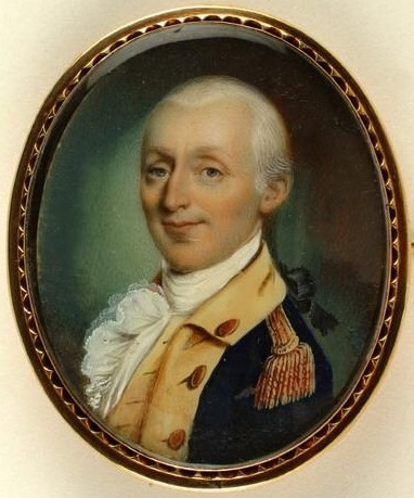 Philip Van Cortlandt (1749-1831)